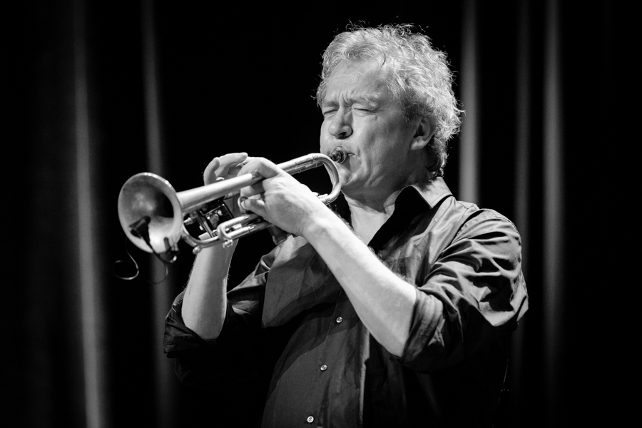 Nils Petter Molvær at Cosmopolite. The concert was part of Kongshaugfestivalen and took place on 17. March 2019 in Oslo. Lineup:Nils Petter Molvær (trumpet)Geir Sundstøl (guitar and lap steel guitar)Jo Berger Myhre (bass guitar)Erland Dahlen (drums and percussion)